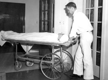 Citation: Mennonite Board of Missions Photograph Collection. Mission to La Junta, Colorado. IV-10-7.2 Box 3 Folder 4, Photo 13. Mennonite Church USA Archives - Goshen. Goshen, Indiana.